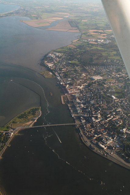 Wexford: aerial 2015